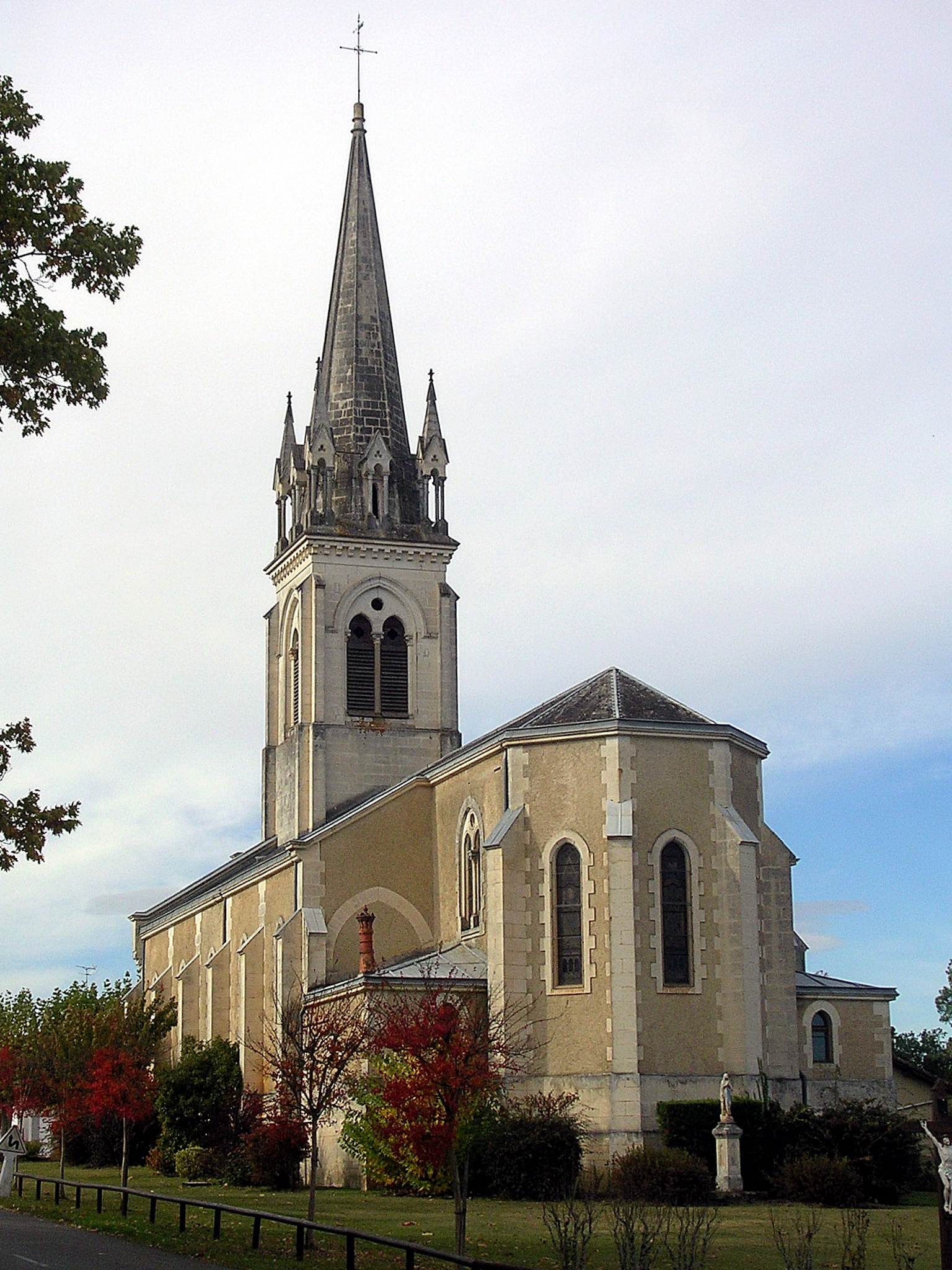 Église Saint-Martin de Cère (Landes, France)